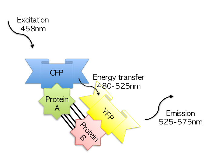 Fret